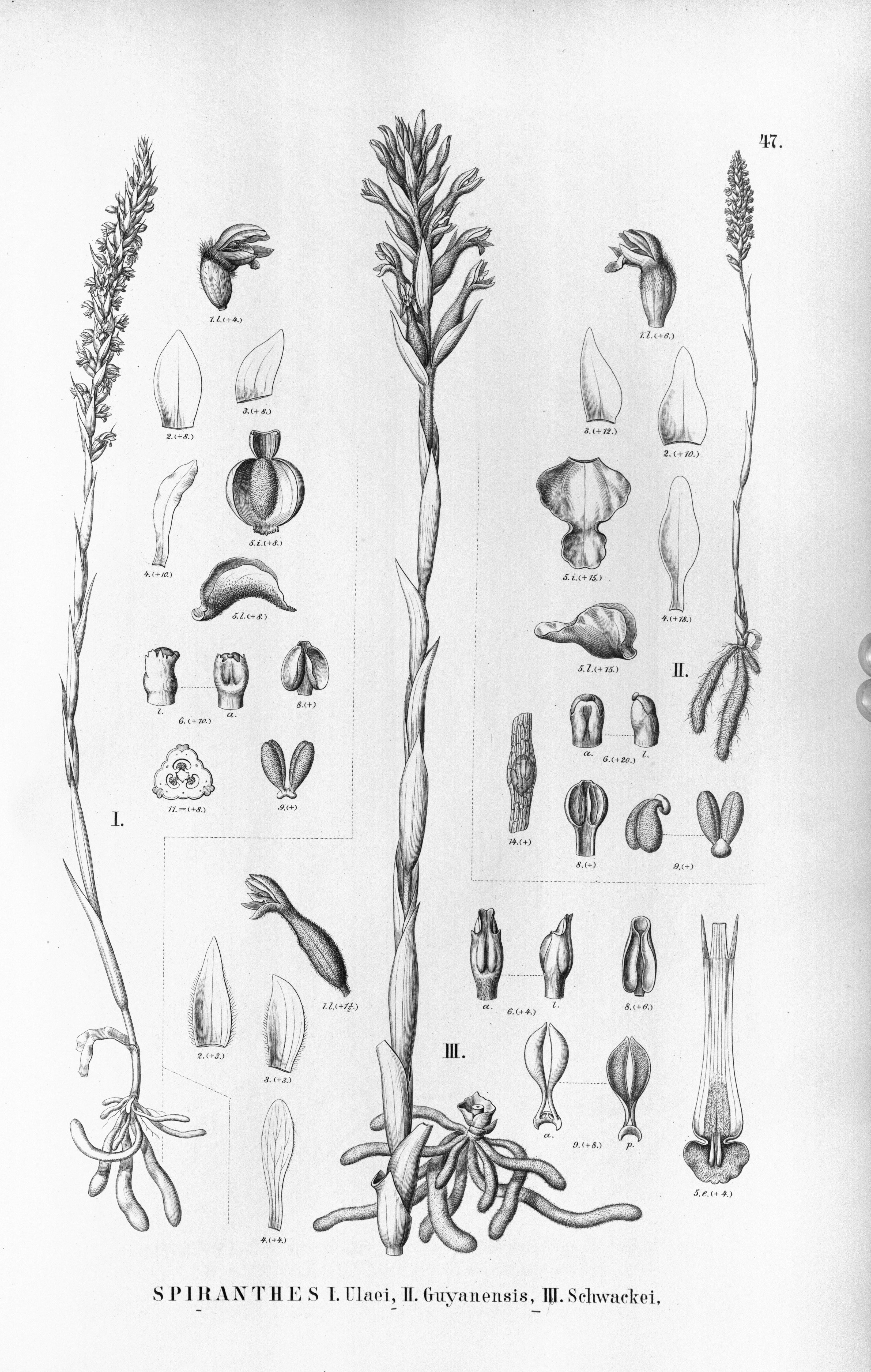 Illustration of: I. Brachystele dilatata (as syn. Spiranthes ulaei) II. Brachystele guayanensis (as syn. Spiranthes guayanensis, spelled by Cogniaux as Spiranthes guyanensis) III. Sarcoglottis schwackei (as syn. Spiranthes schwackei)